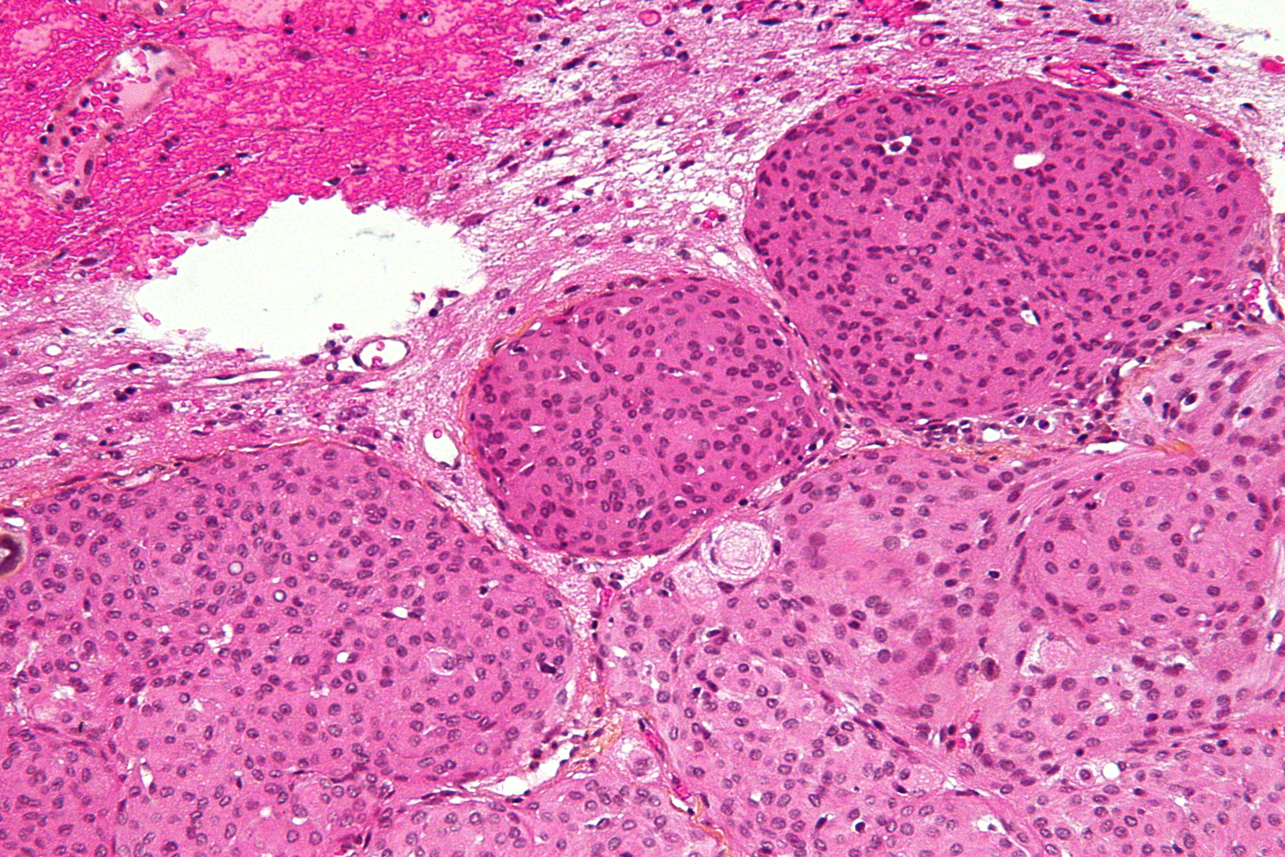 High magnification micrograph of a meningioma with brain invasion (WHO Grade II). HPS stain. Related images Intermed. mag. High mag. Very high mag.